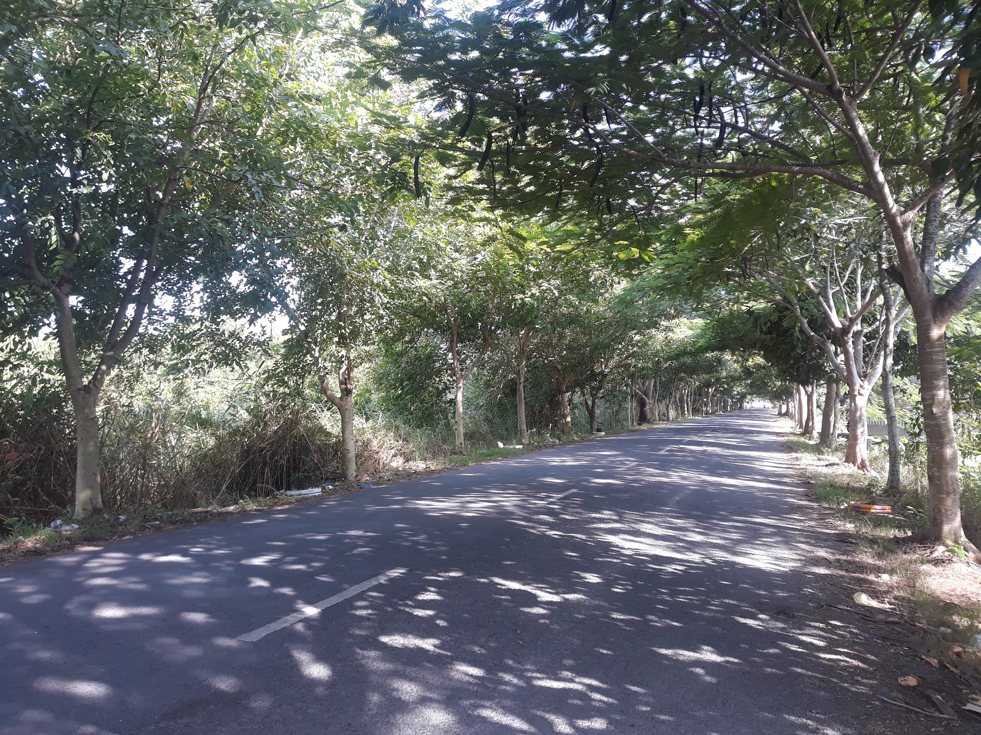 DT650, Binh Thanh commune, Cao Lanh district, Dong Thap province